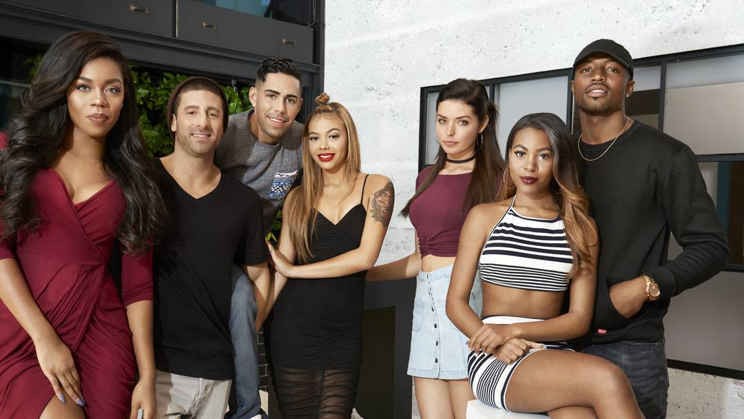 Real World 32 cast